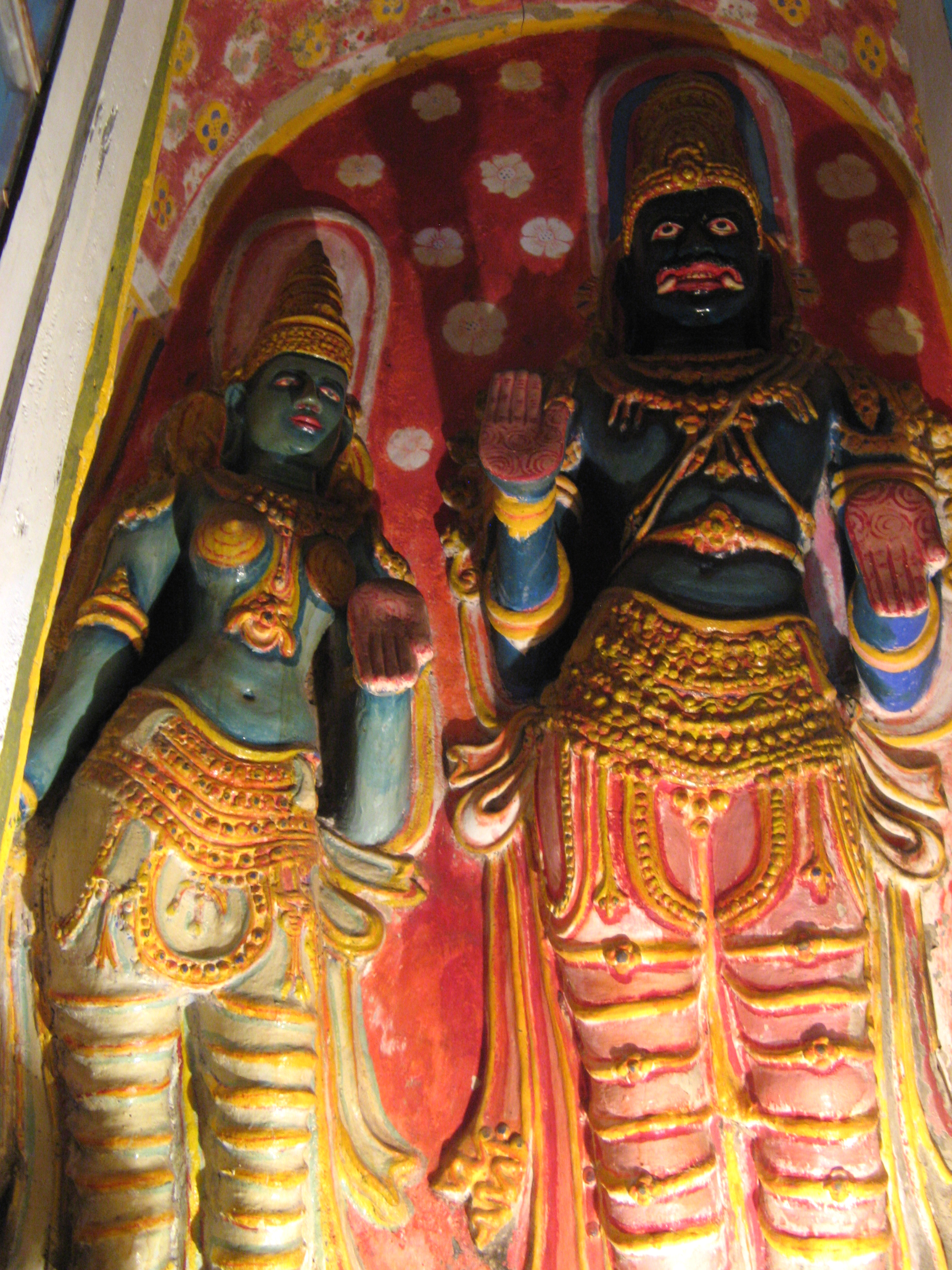 Directional niche-shrines inside the temple carry tall, Kandyan-period, images of Sri Lanka's traditional Four Protectors; Vibhishana is the South.